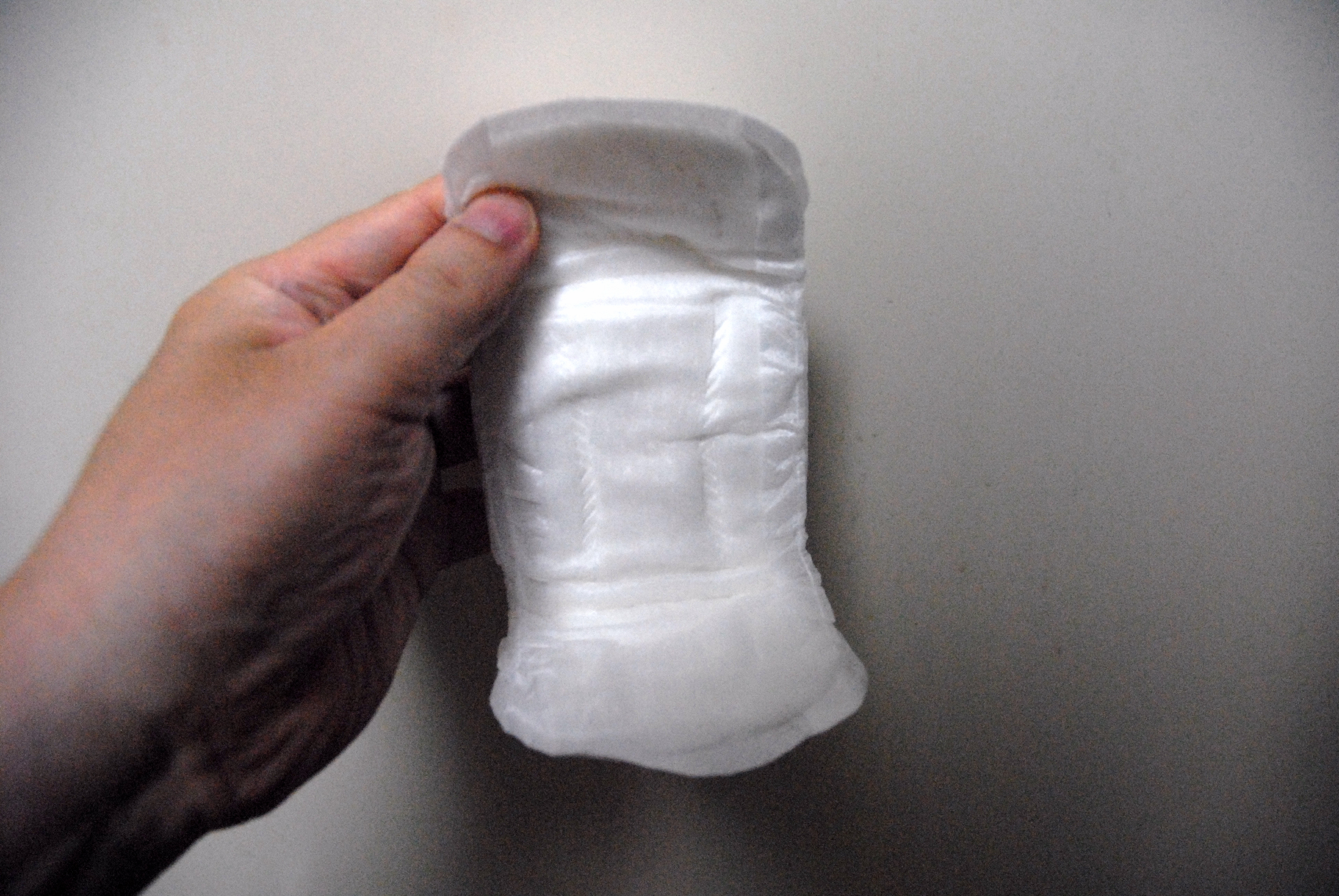 Incontinence pad for women.